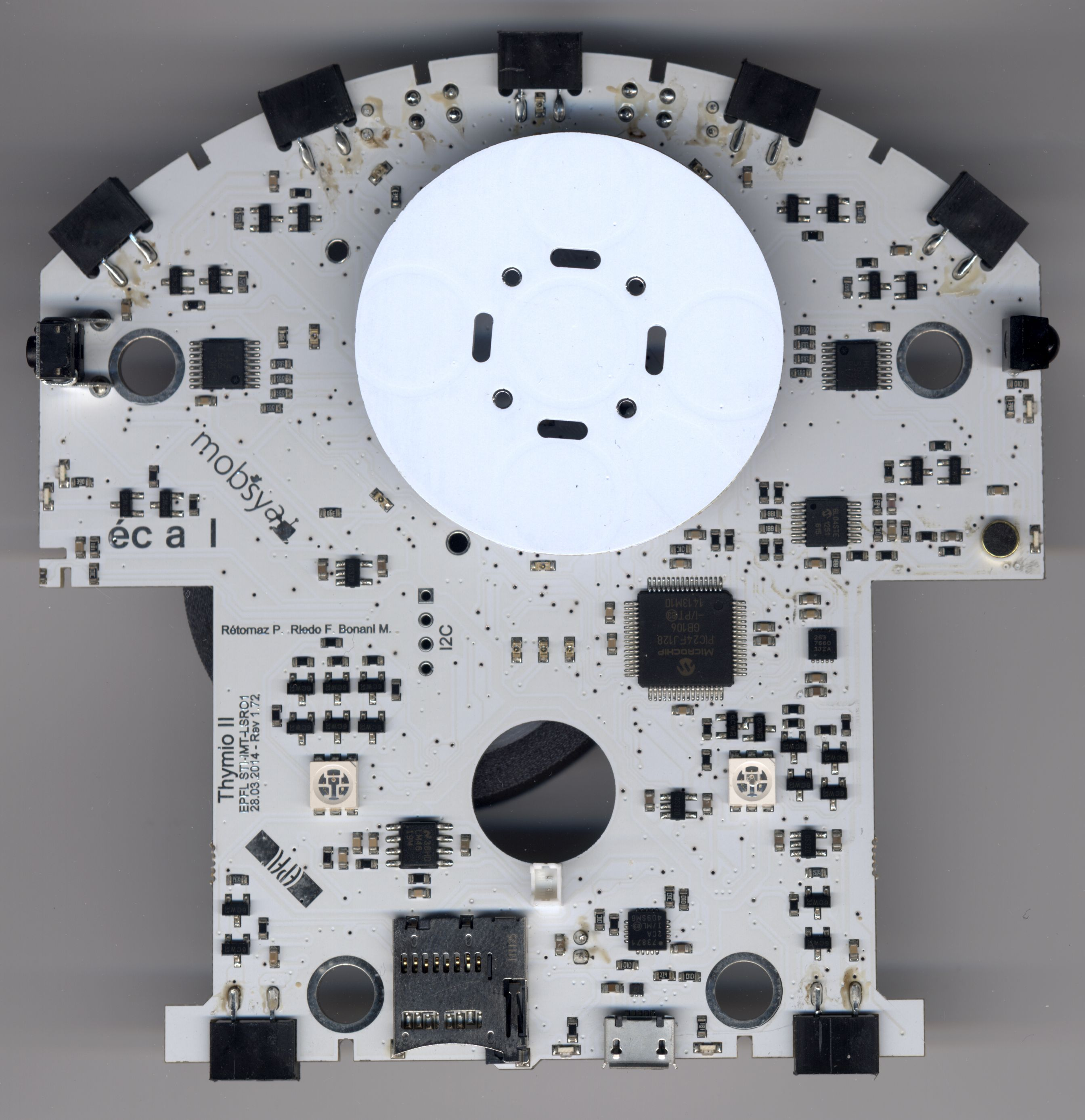 Motherboard of the Thymio II robot